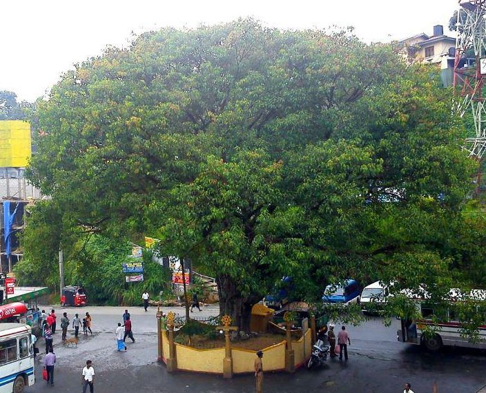 this is the City of Srilanka, Hatton.jpg